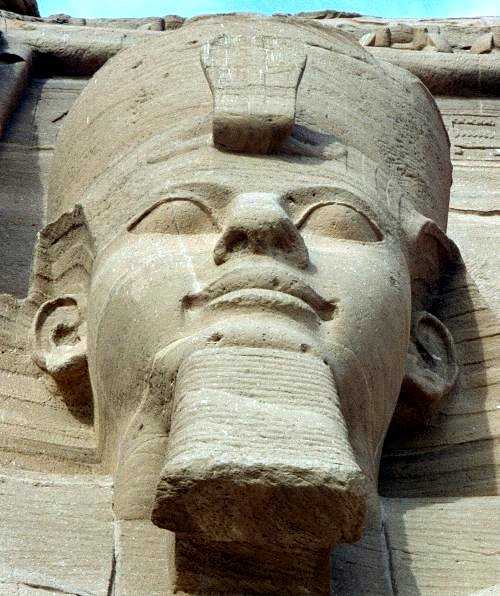 Pharaoh Ramses II of Egypt in Abu Simbel.